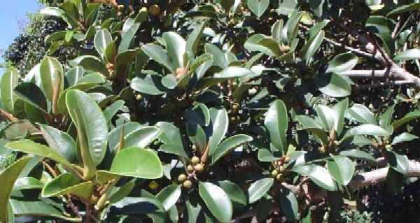 Port Jackson Fig - This is a photo showing the fruit and leaves of a fig tree adjacent to Turramurra station, Sydney, Australia. Species identification by Ku-ring-gai Municipal Council.